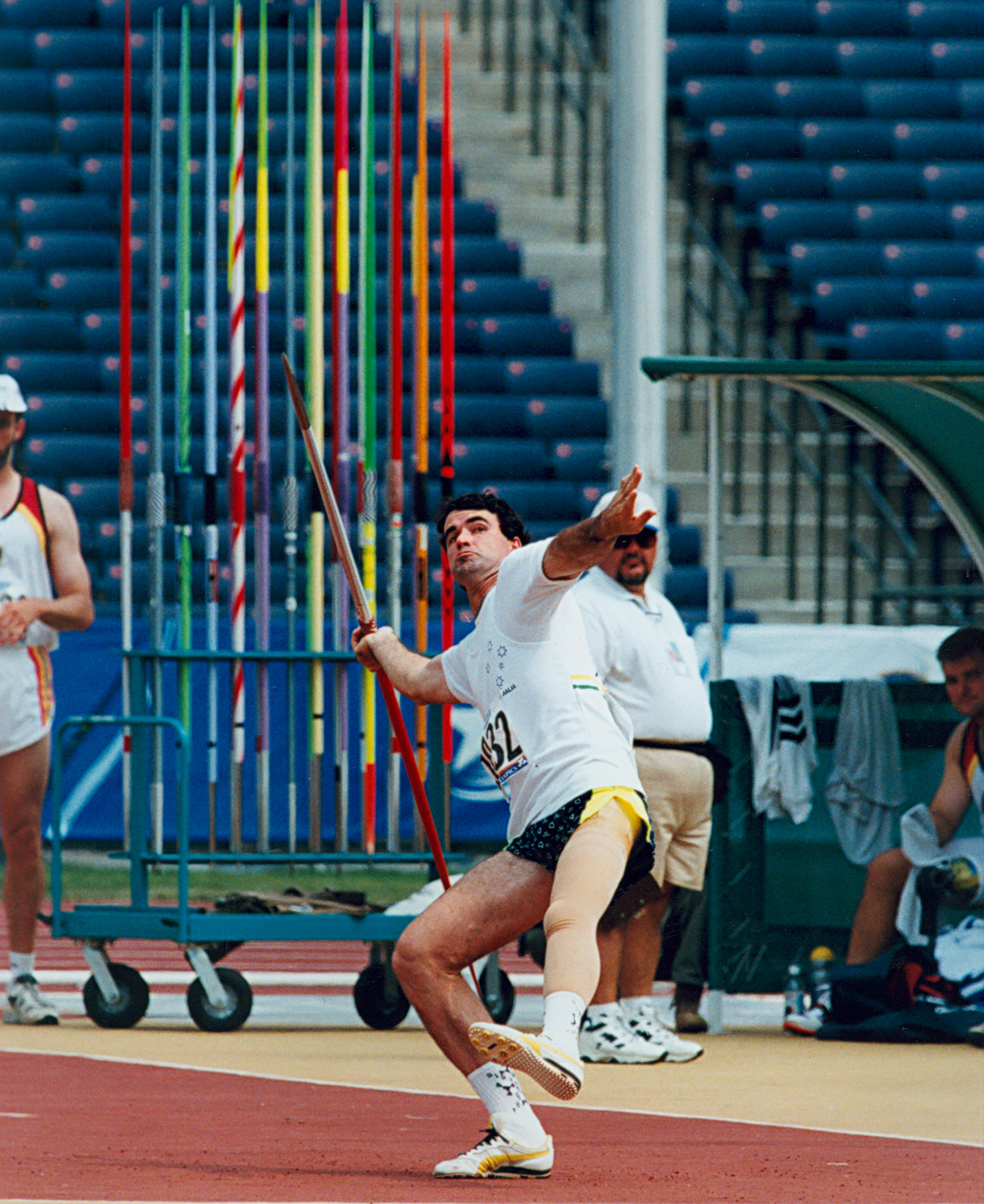 Australian athlete Kerrod McGregor competes in the P42 pentathlon event at the 1996 Atlanta Paralympic Games in which he won a silver medal